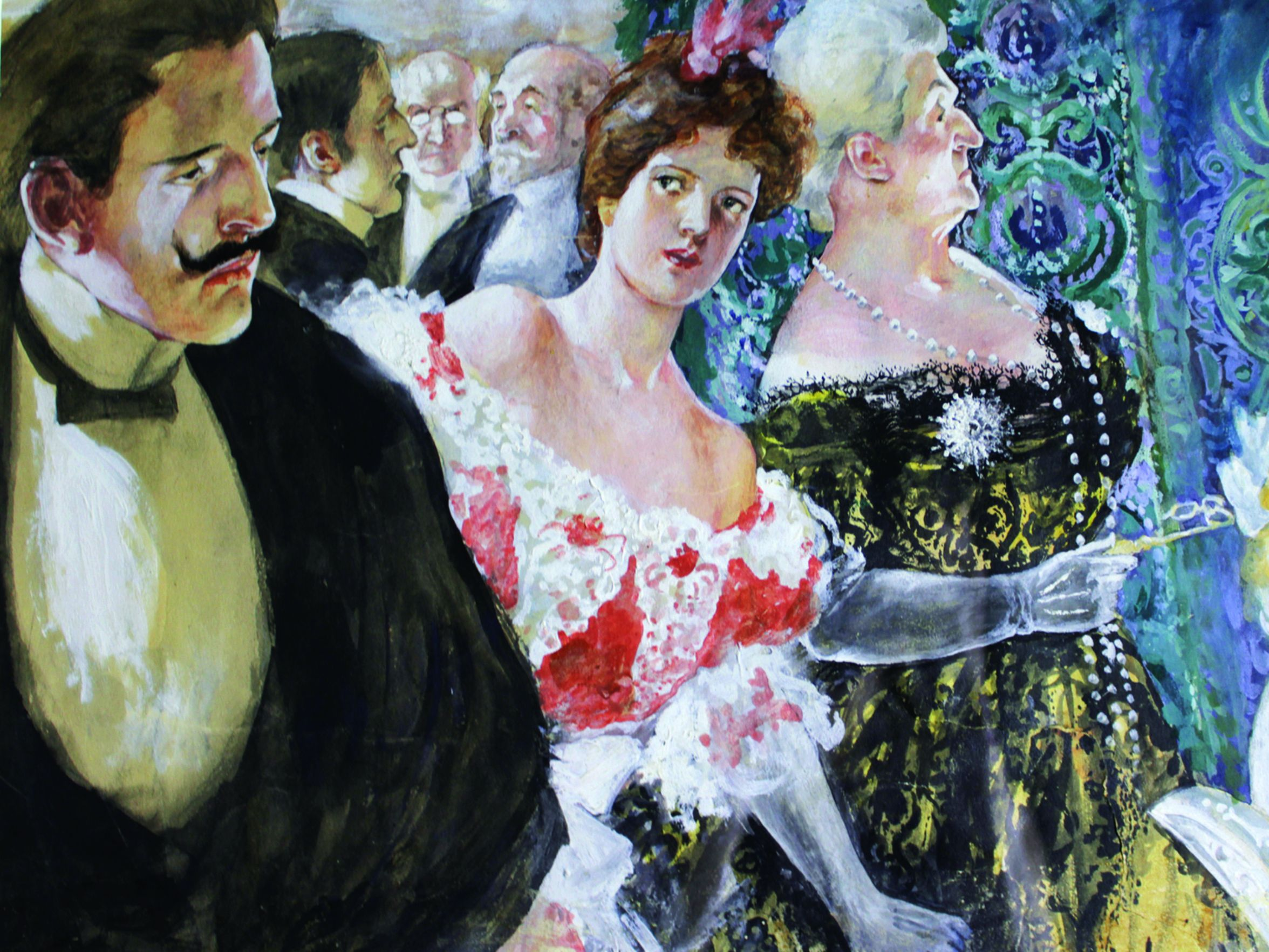 The Bachelor by Rose O’Neill, c. 1896-1901, ink, watercolor, and gouache on paper, Springfield Art Museum (Missouri)